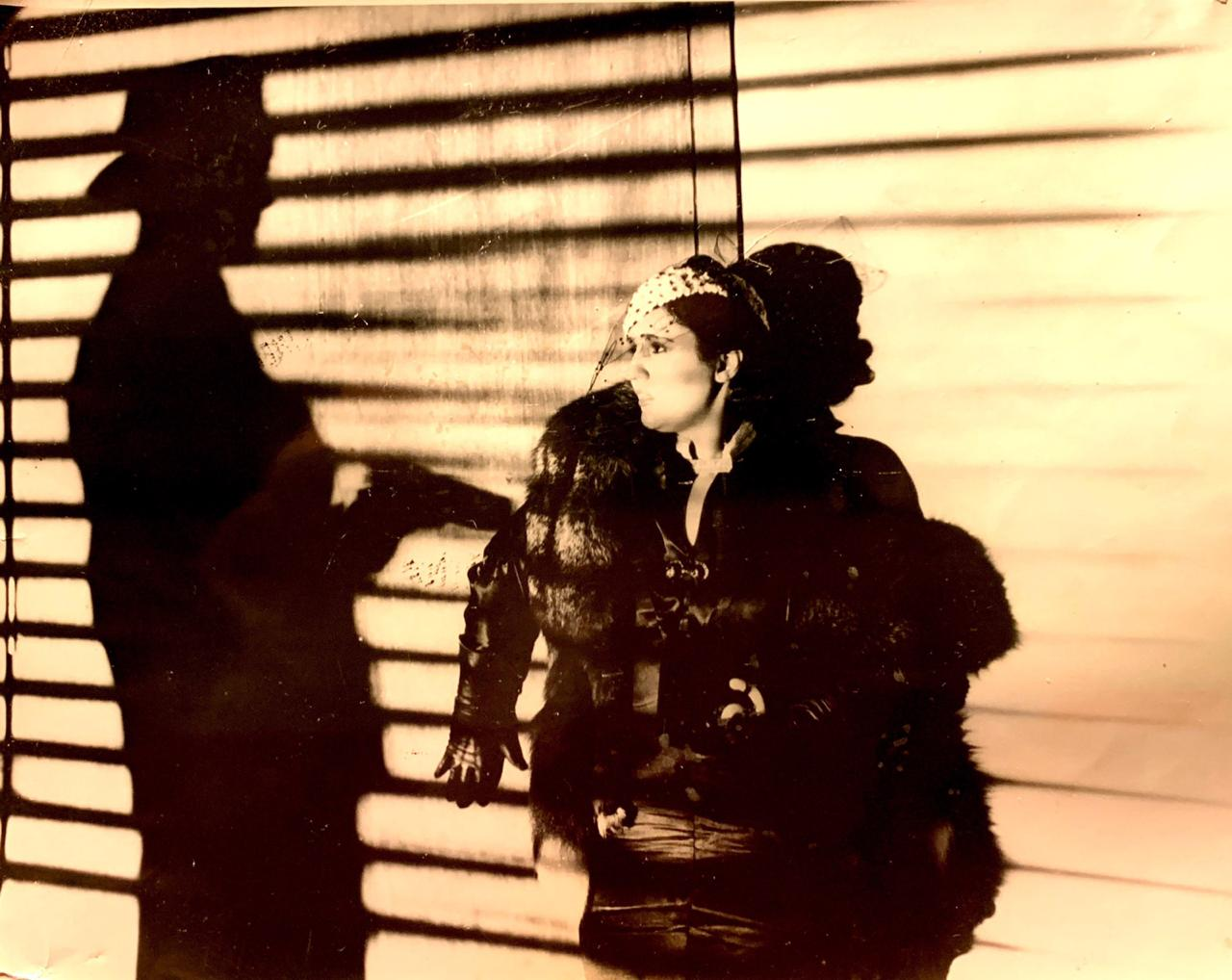 Maruja Gil Quesada in "Sombras porteñas" (1936)